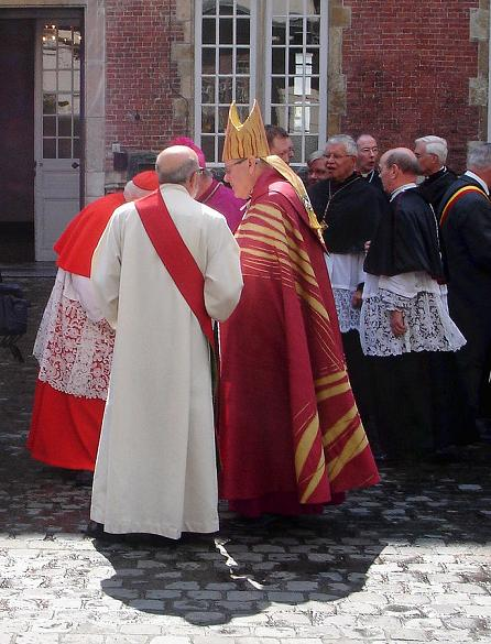 Precious Blood